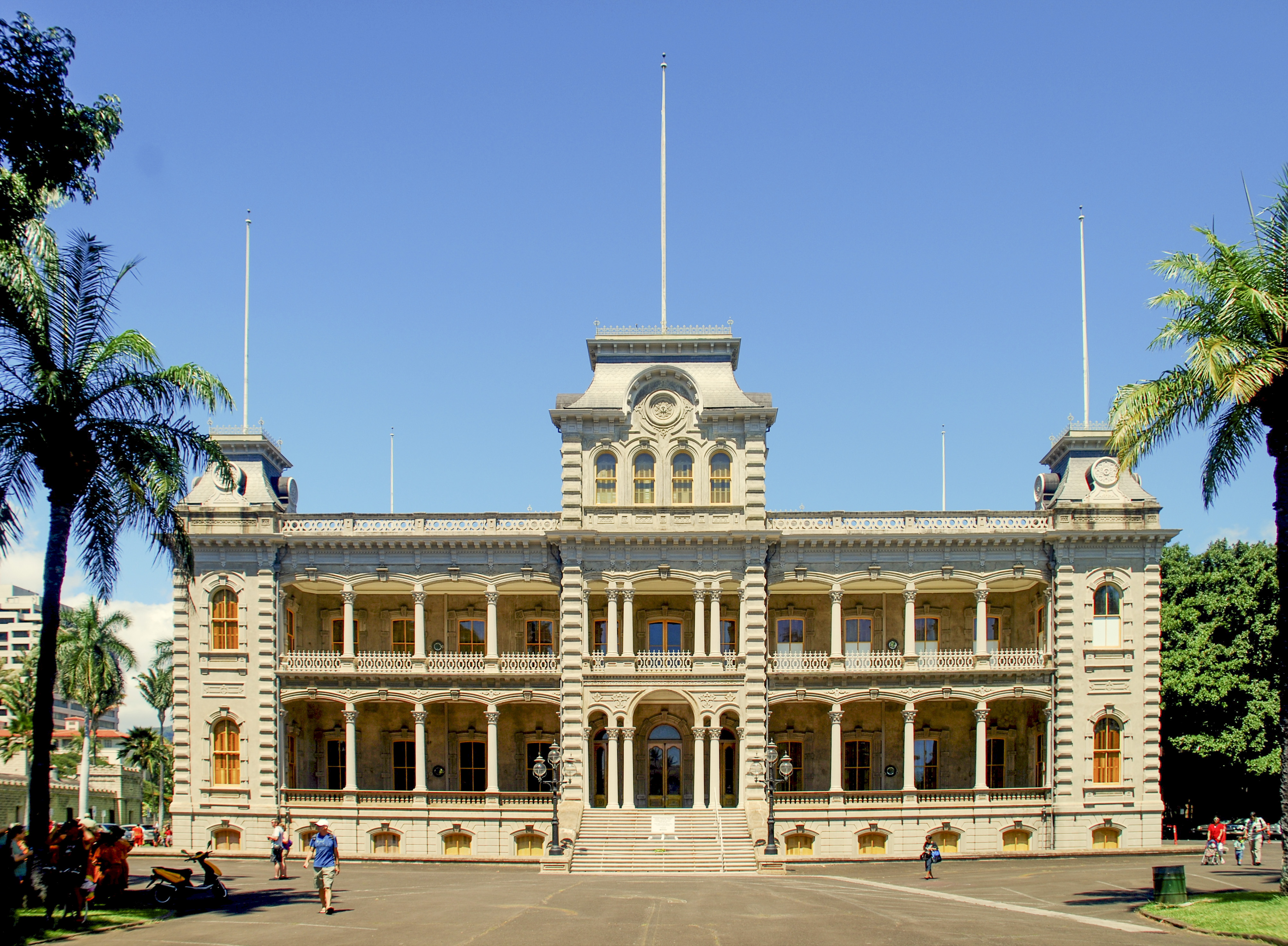 Iolani Palace